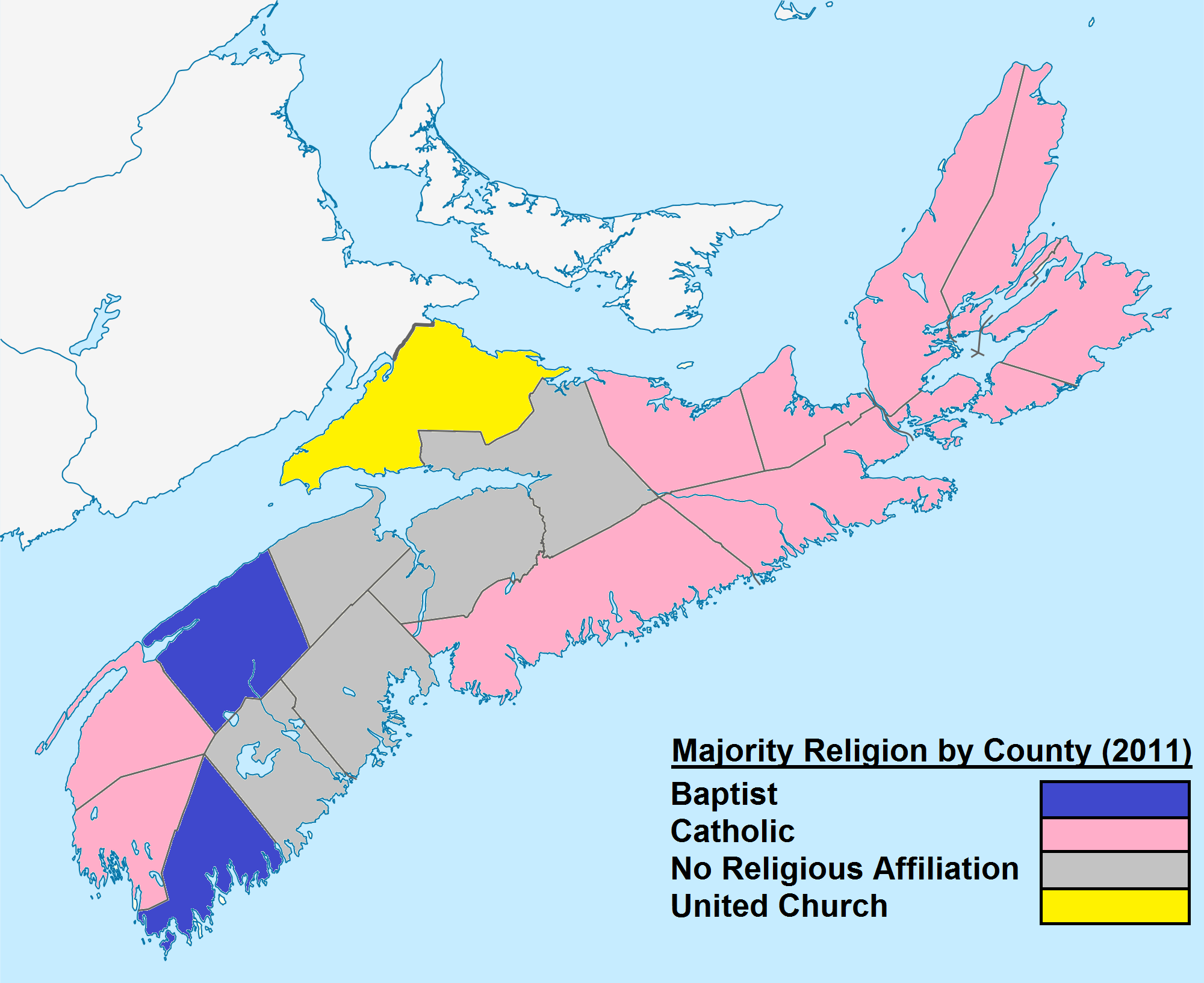 Map of Nova Scotia showing the majority religion in each County